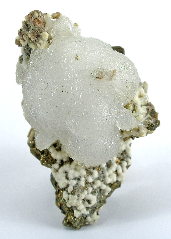 Tobermorite Locality: Concepción del Oro, Municipio de Concepción del Oro, Zacatecas, Mexico (Locality at ) Size: miniature, 3.9 x 2.3 x 1.9 cm Tobermorite Brilliantly shimmering, lustrous, large balls of tobermorite crystals , forming a translucent "blob" over matrix of pyrite, make this the most visibly appealing example of the species I have seen myself. Its a display-quality miniature, from old Mexican finds (I am told 1960s). This was in the Marty Zinn collection for a long time (#1492). Apparently the small acicular tufts are also tobermorite.